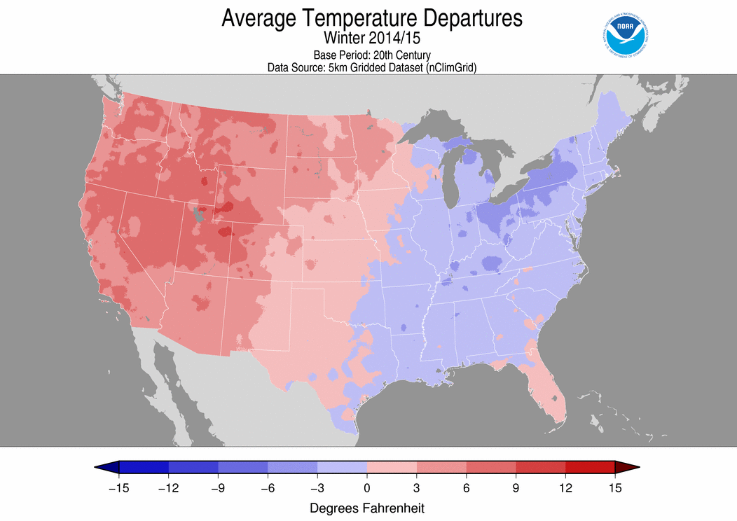 United States Average Temperature Departures (Dec-Feb)